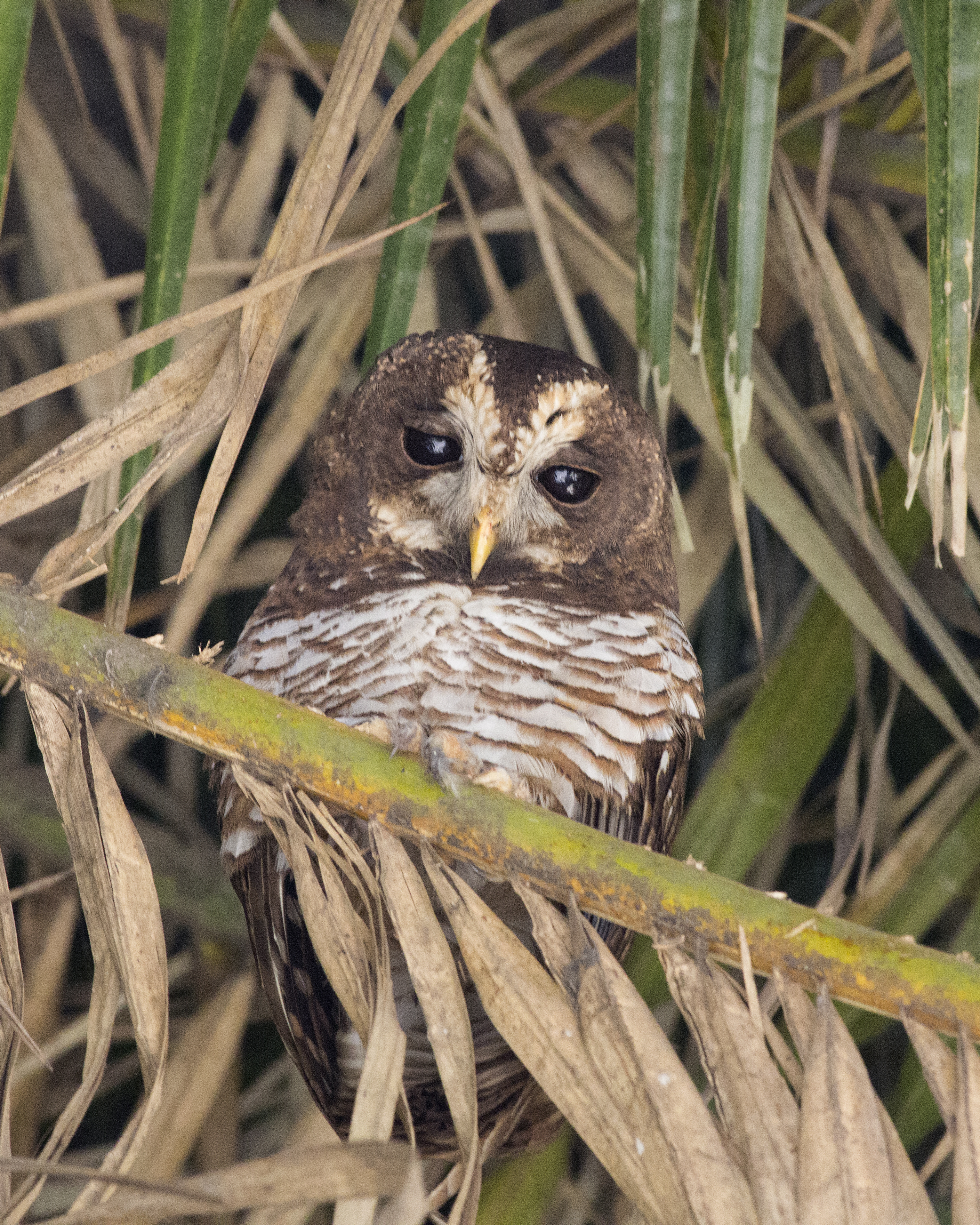 African Wood Owl (Strix woodfordii umbrina), Burayu, Oromia, Ethiopia